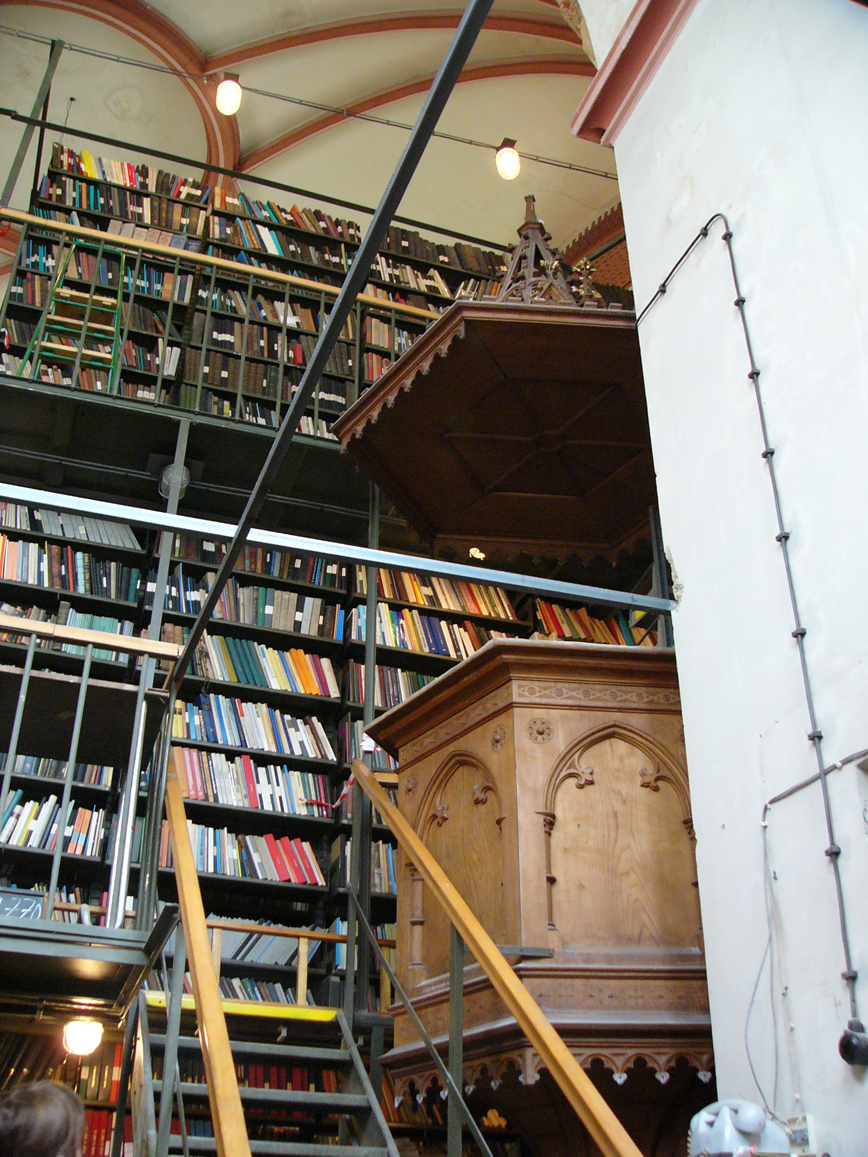 Pulpit in Red church in Olomouc (Czech Republic).